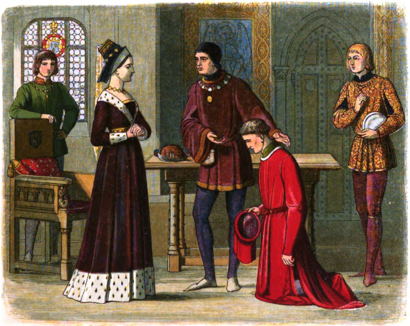 Feeling that Edward IV no longer values his advice and favours instead the Woodvilles, Richard Neville, 16th Earl of Warwick, submits to the queen of their Lancastrian enemies, Margaret of Anjou.